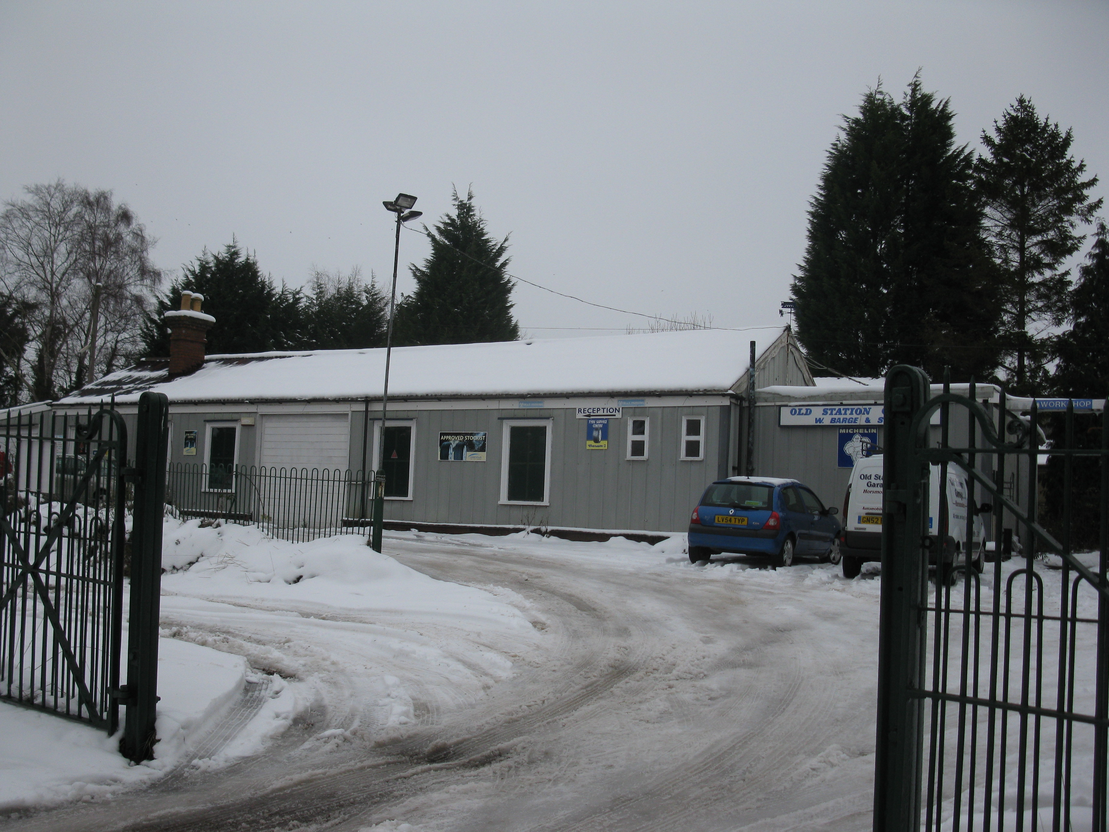 The railway station at Horsmonden